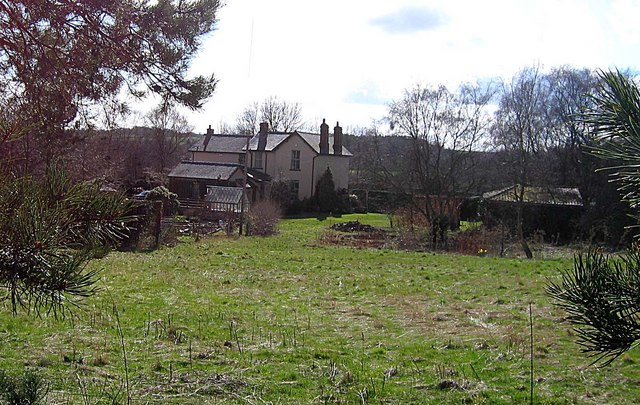 Site of Sherburnhouse Station Closed in 1931 little remains of the station apart from the building seen in the background which is now a private house. More about the history of this railway line at